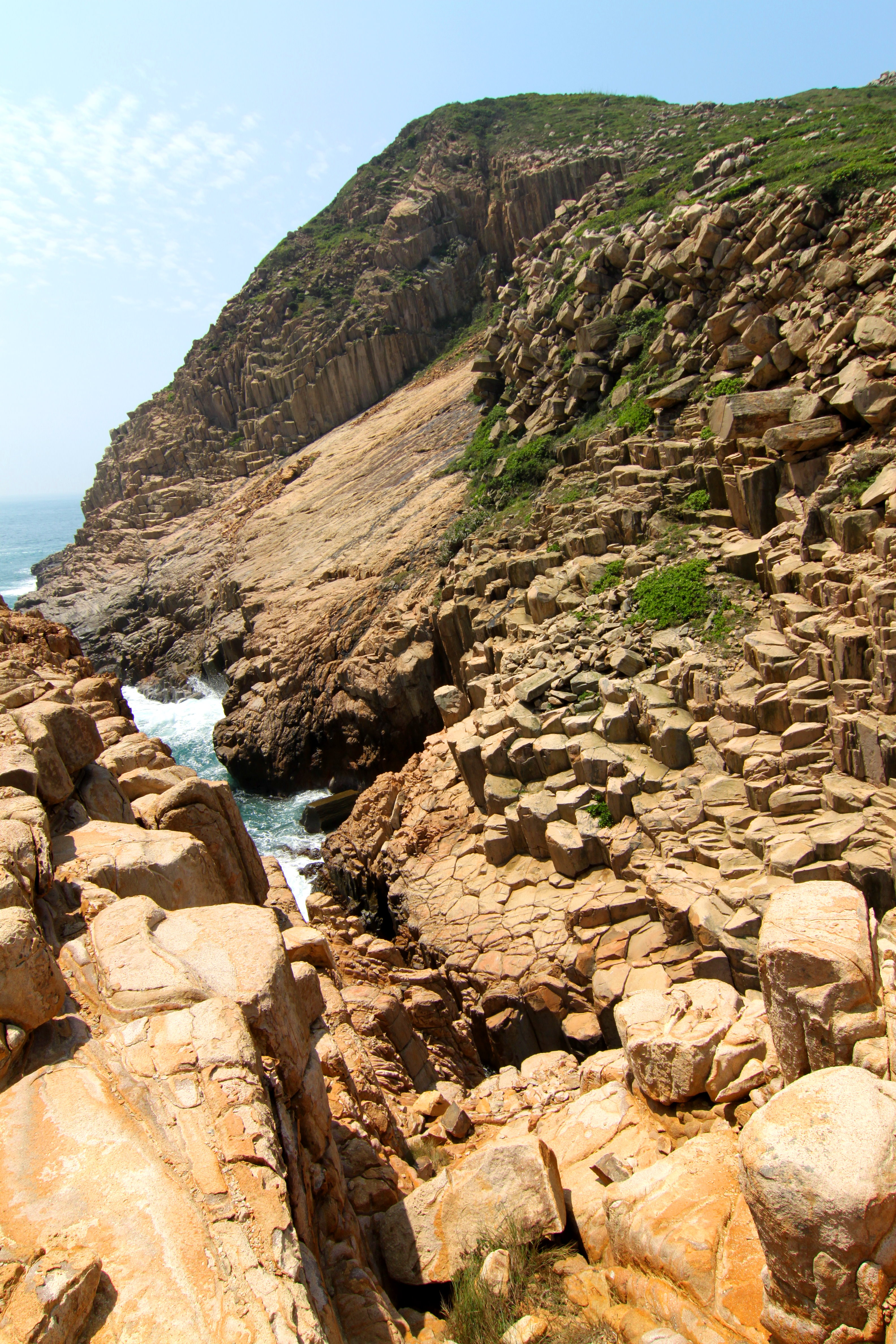 North Ninepin Island, Hong Kong Geopark